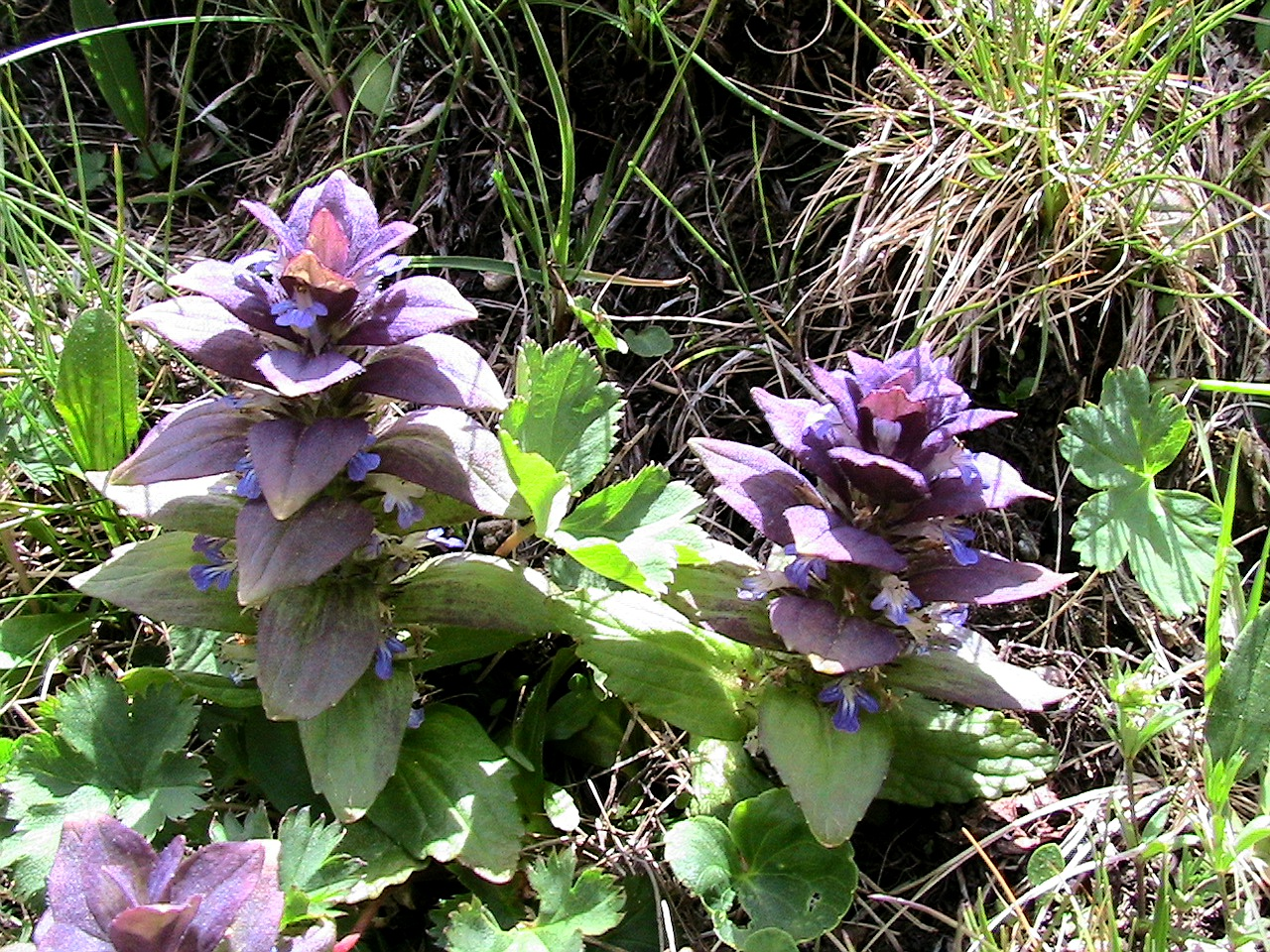 Ajuga pyramidalis. In Cabdella (Pallars Jussà - Catalunya. To 2.150 m altitude